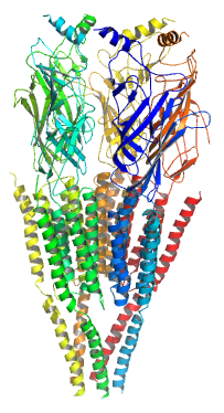 A simple version of the structure of Nicotinic Acetylcholine receptor(nAchR). Derived from the published structure (source: RCSB PDB Database PDB ID: 2BG9 from Unwin, N. (2005). Refined Structure of the Nicotinic Acetylcholine Receptor at 4A Resolution. J. Mol. Biol. 346:967.